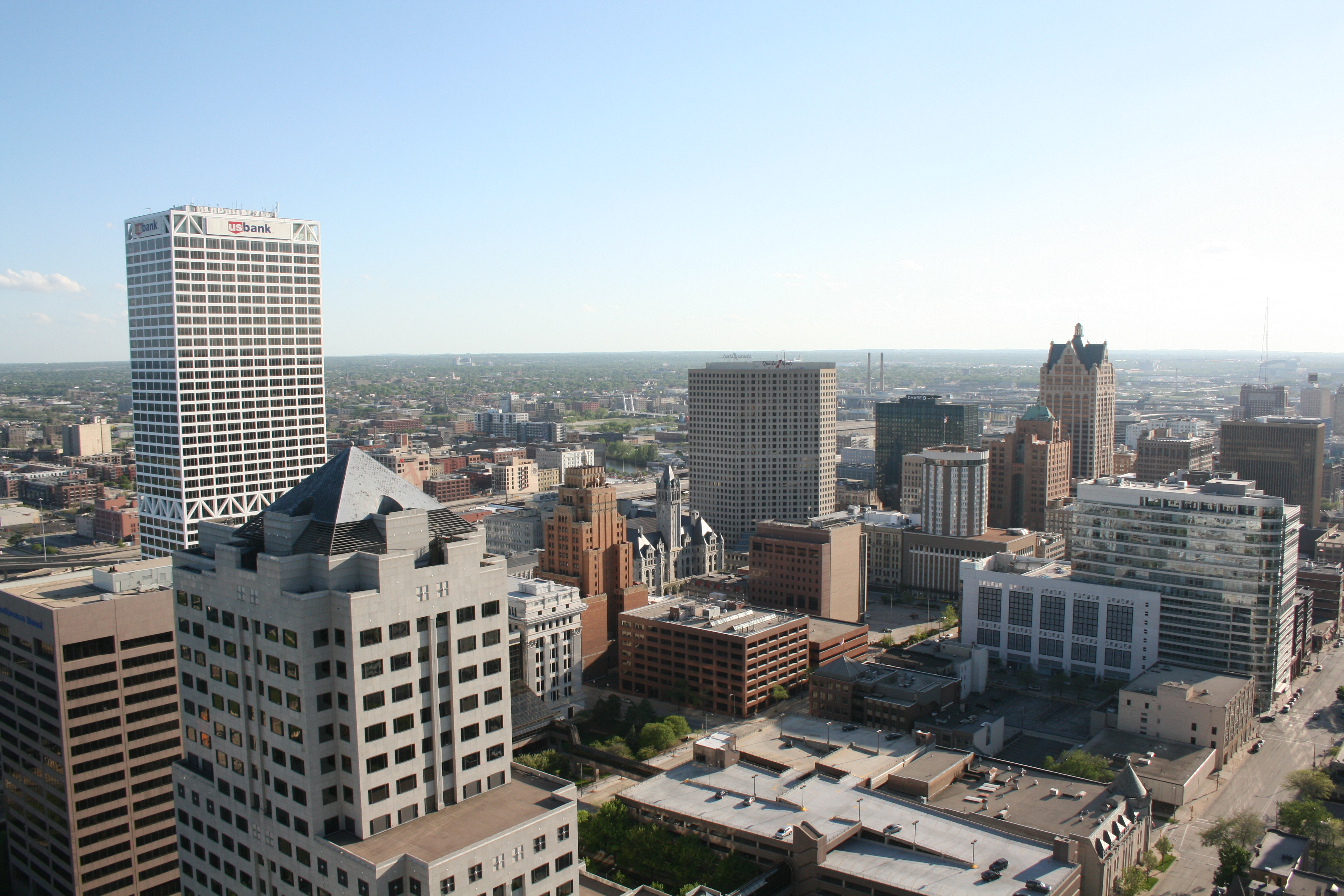 A shot of Milwaukee from University Club Tower. Miller Park and the Valley Power Plant are visible in the distance.